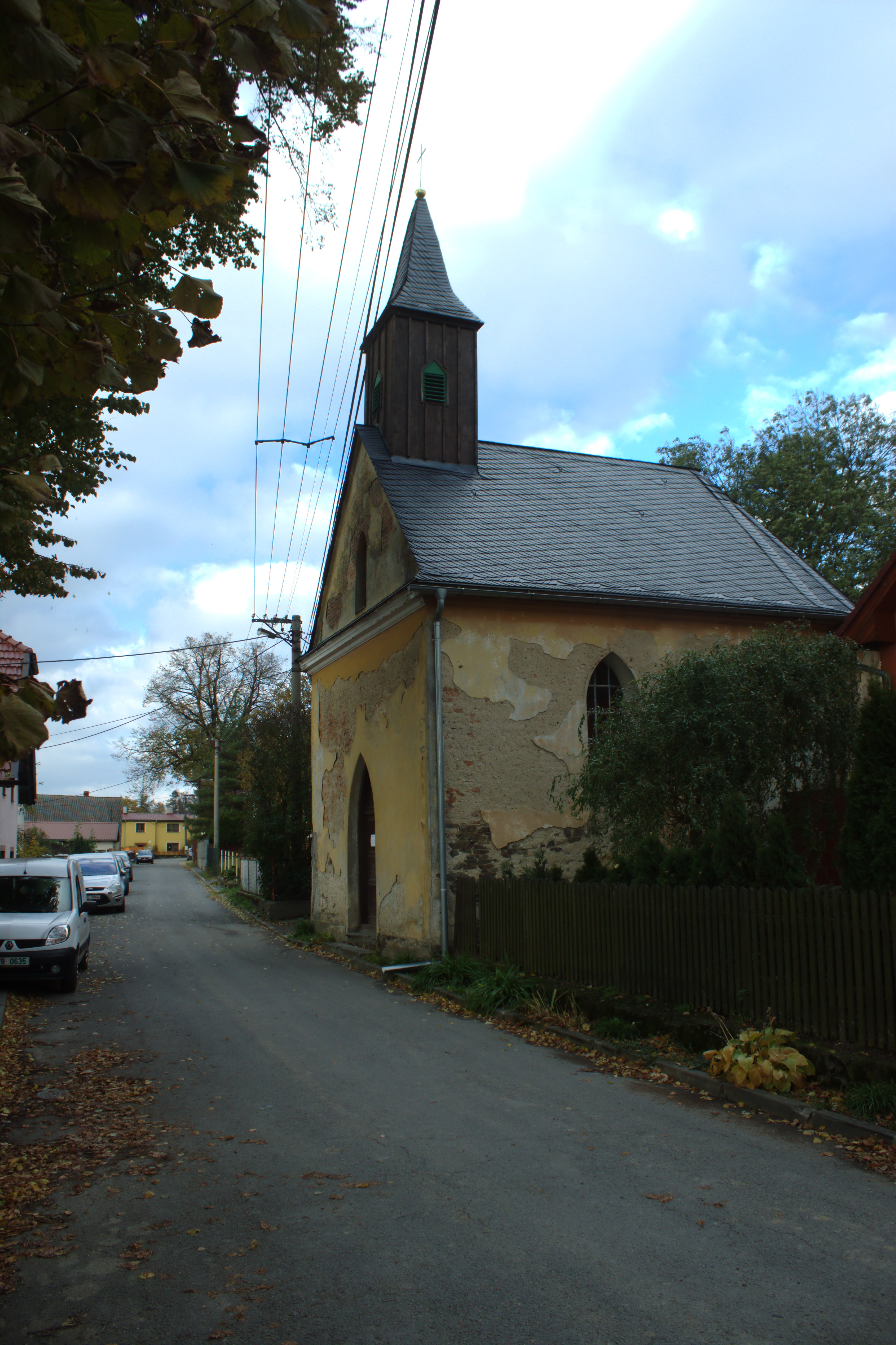 St. Joseph Chapel in Prostřední Dvůr, Moravian-Silesian Region, CZ